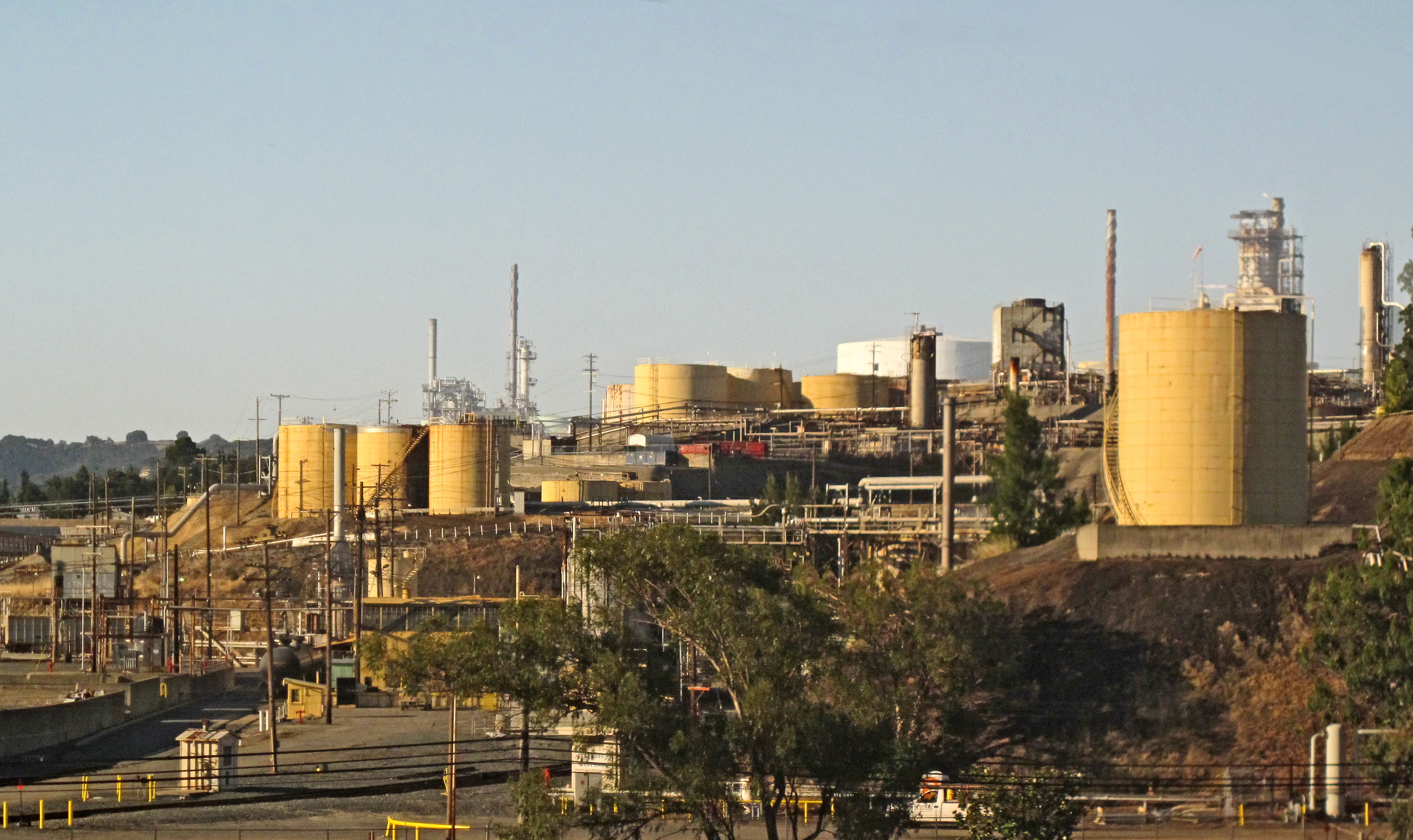 Valero oil refinery, Benicia, California